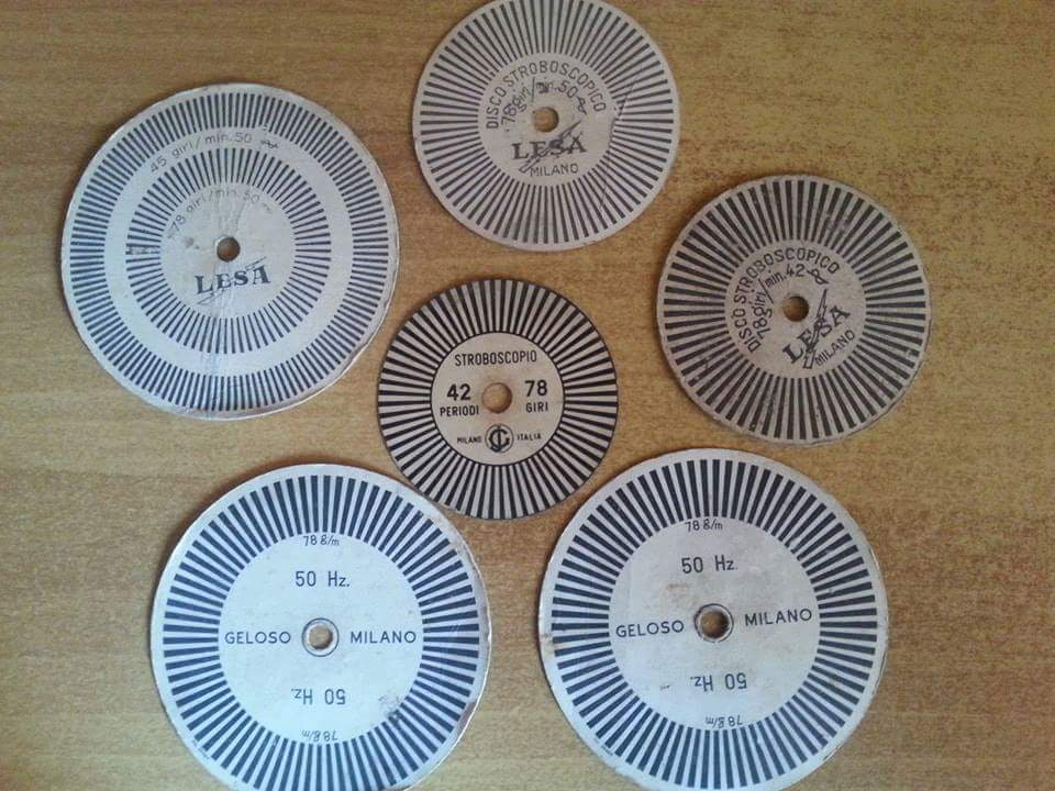 Some stroboscopic discs from Lesa and Geloso